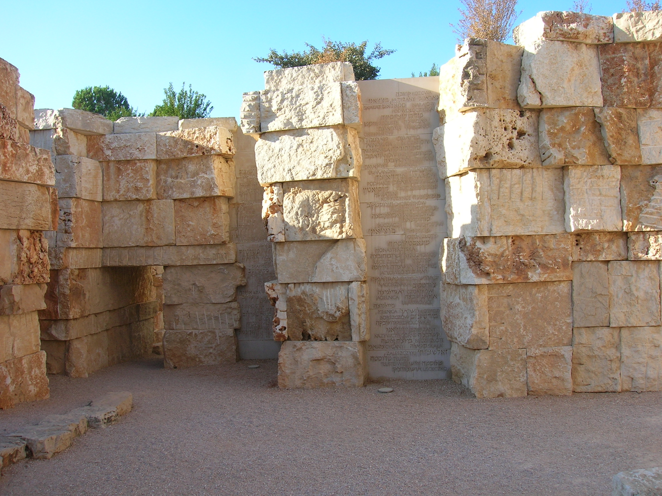 The Valley of communities memorial at Yad Vashem Museum, Israel Licence of the architect missing. Architect? O__o --Bouncey2k 21:51, 17 September 2006 (UTC) as Israli Law (see Commons:Licensing#Israel) this picture does'nt need architect authorization.